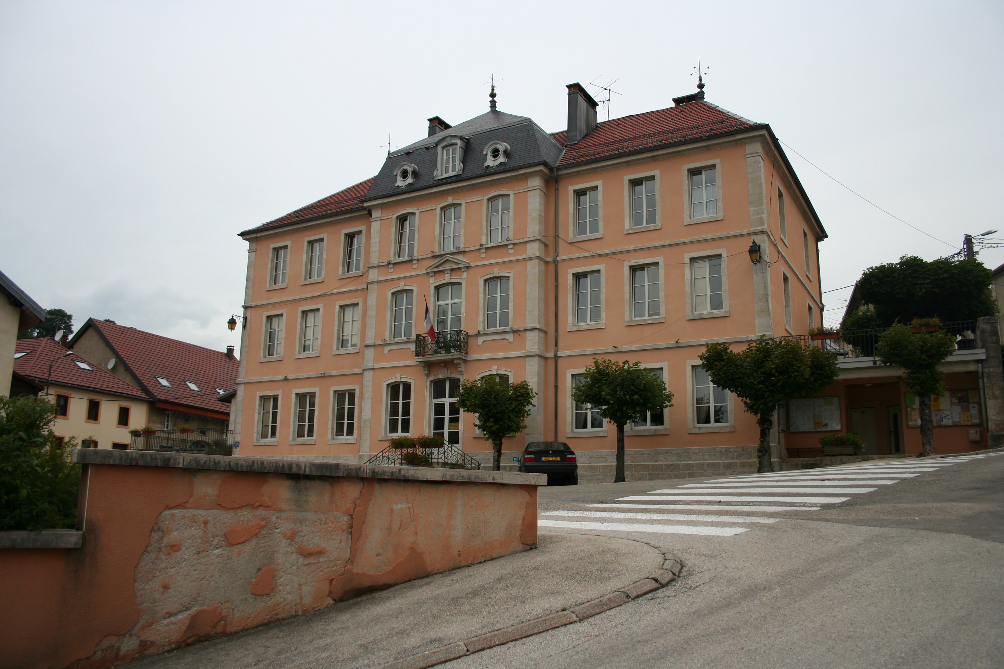 Jougne Doubs France (City-Hall)